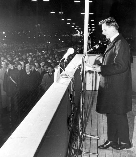 On the November 8, 1966 it was time for Olof Palme, then Minister of Communications, to ceremonially inaugurate the Älvsborg Bridge.